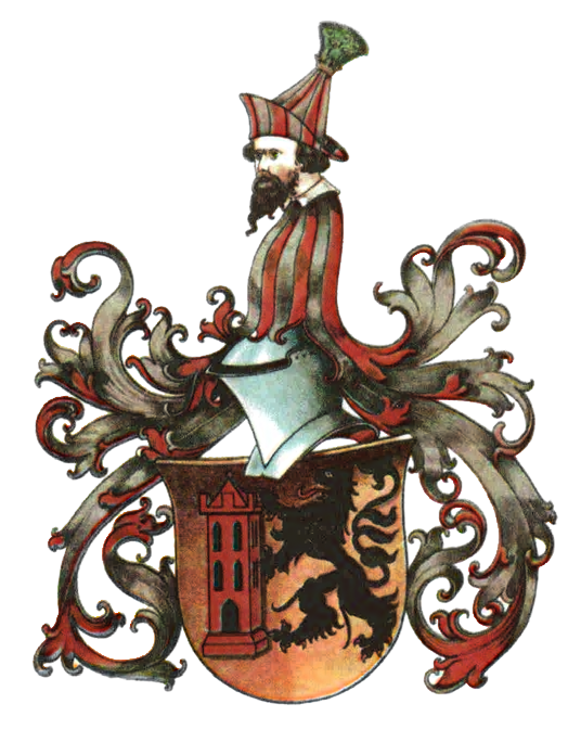 Large coat of arms of Meissen